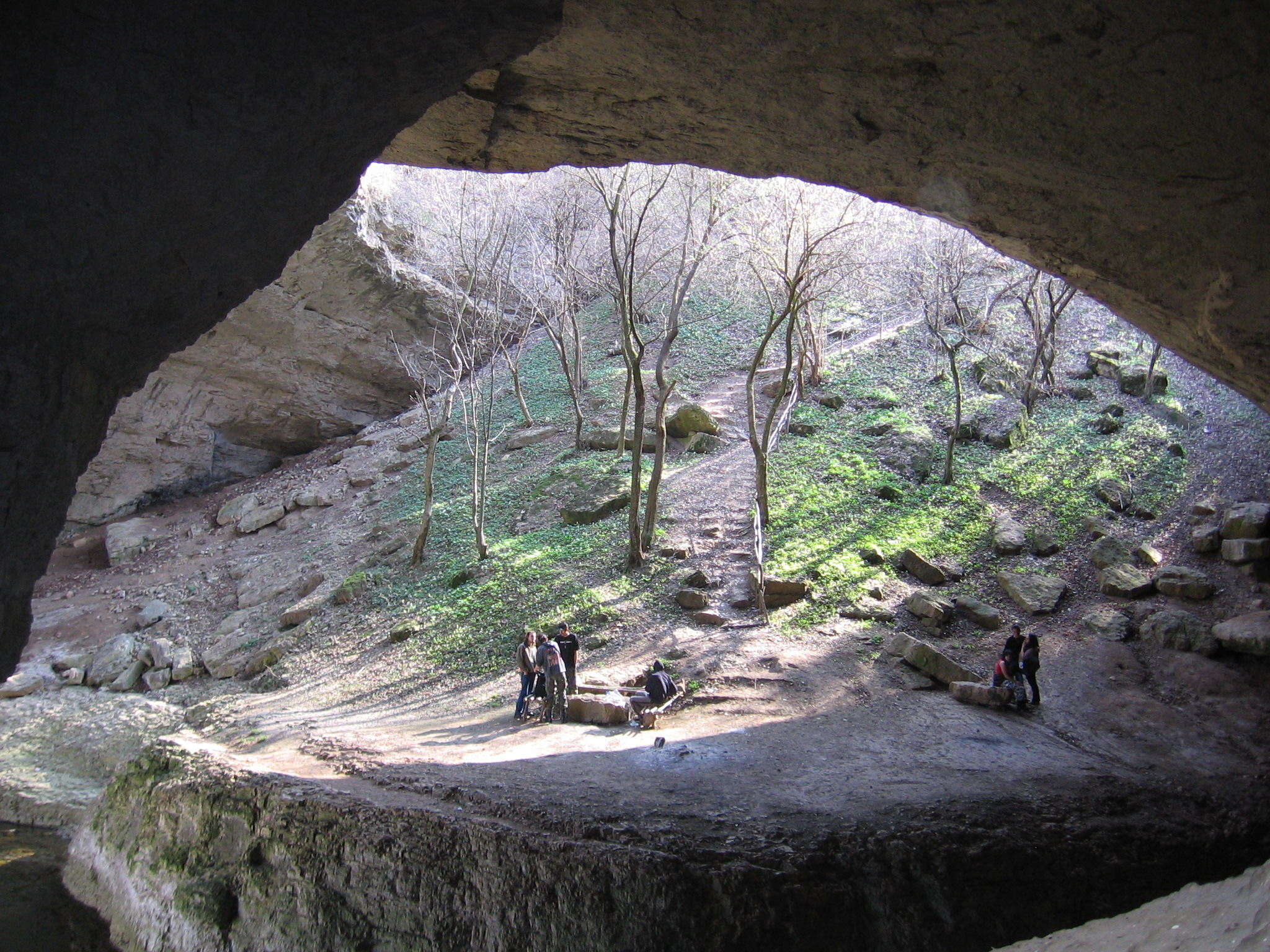 Natural bridge "Божи мост" ("Bozhi most", "God's bridge") near village Lilyache, Bulgaria.